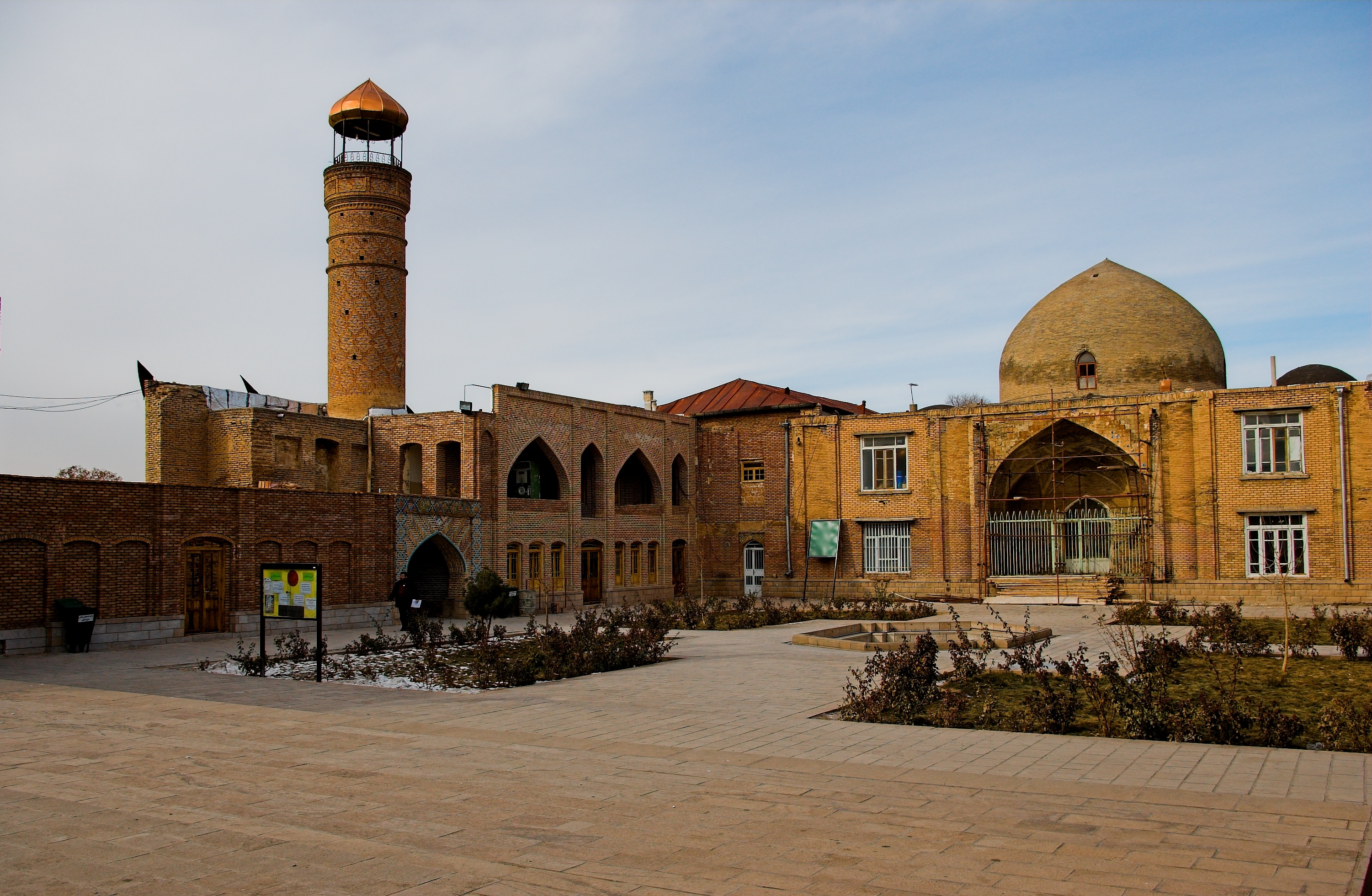 Masjed near the Mausoleum of Seyyed Hamza, Tabriz, Iran.